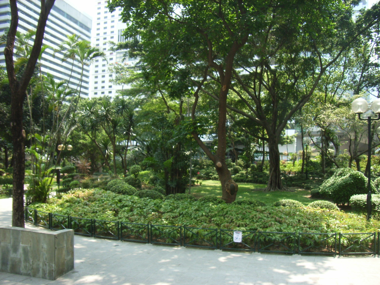 香港zh:遮打花園 長出一片小樹林 On Oct-20-1978, the Chater Garden was opened.